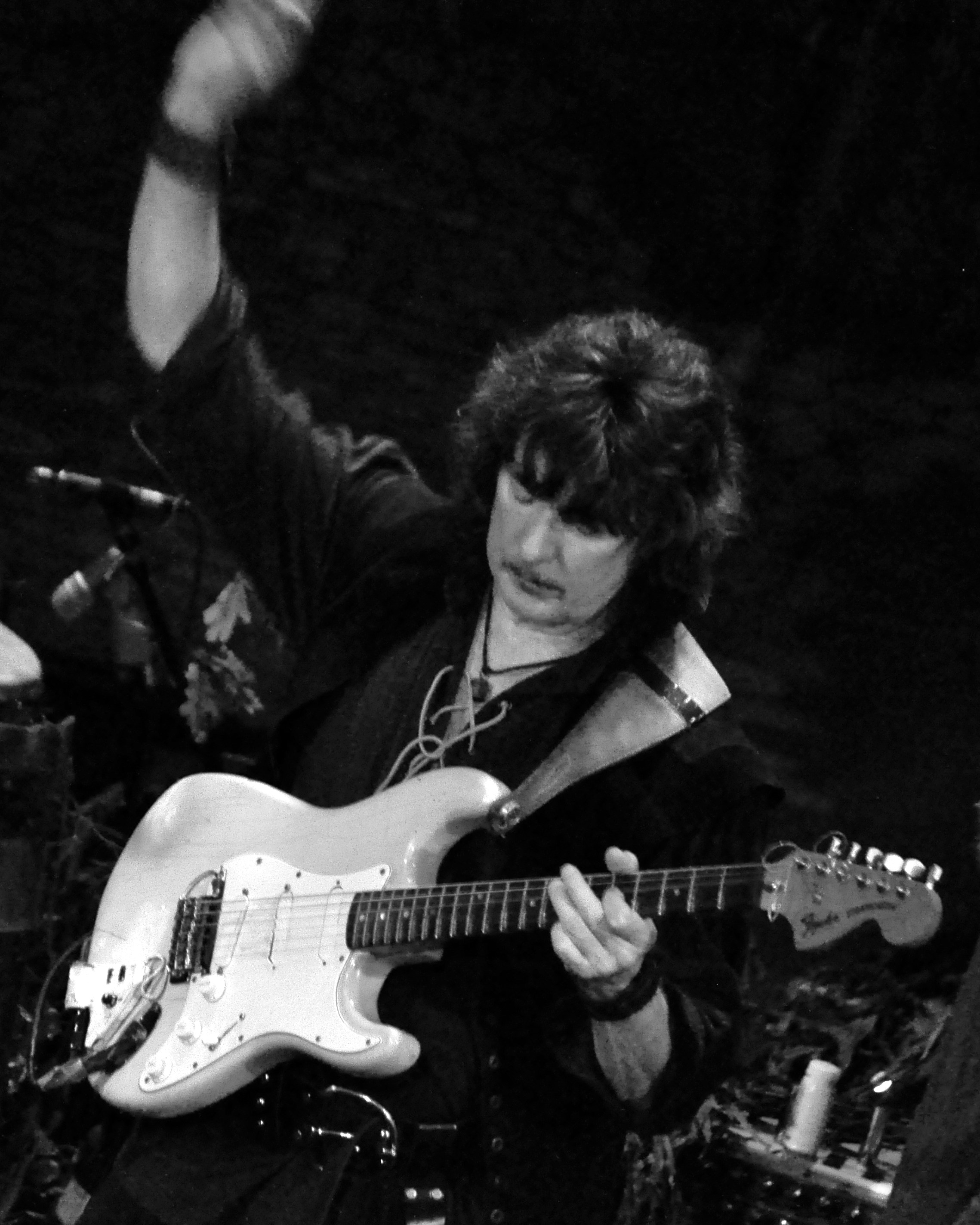 Ritchie Blackmore live in concert with Blackmore's Night at the Tarrytown Music Hall, October 25, 2012